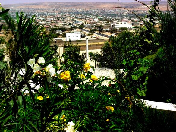 Overview of Hargeisa, Somalia.